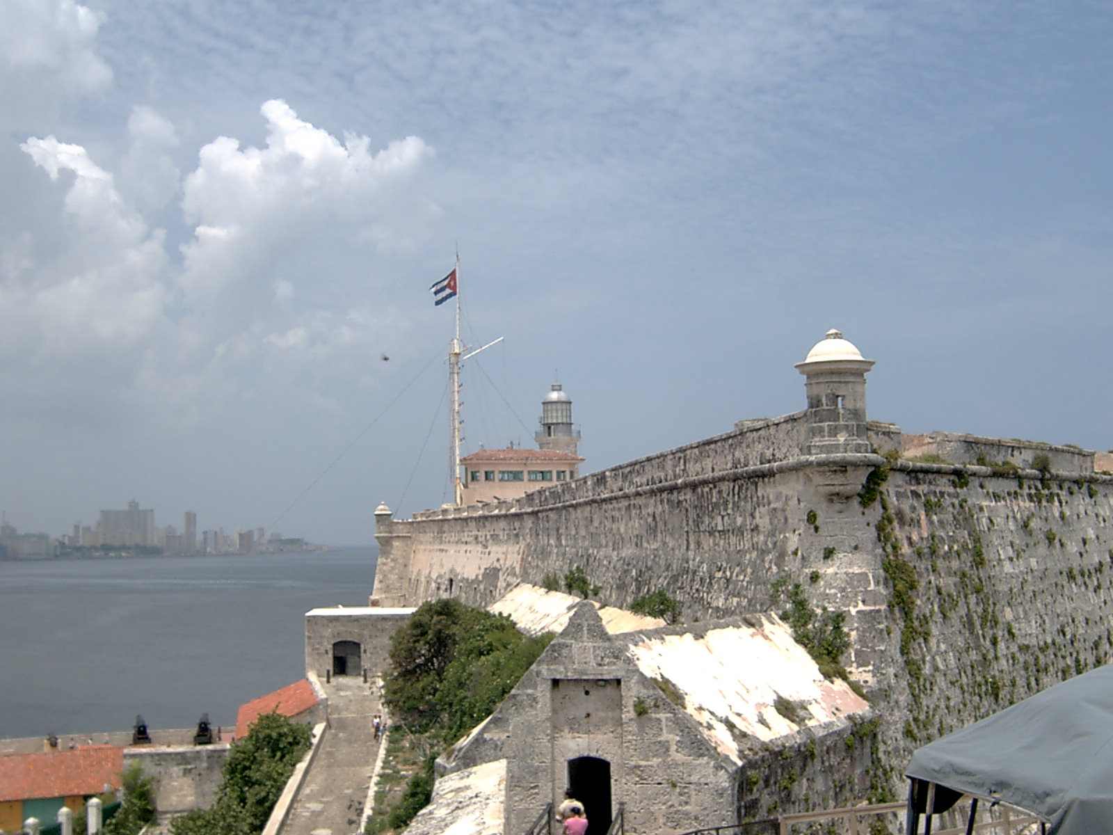 El Morro castle in La Habana